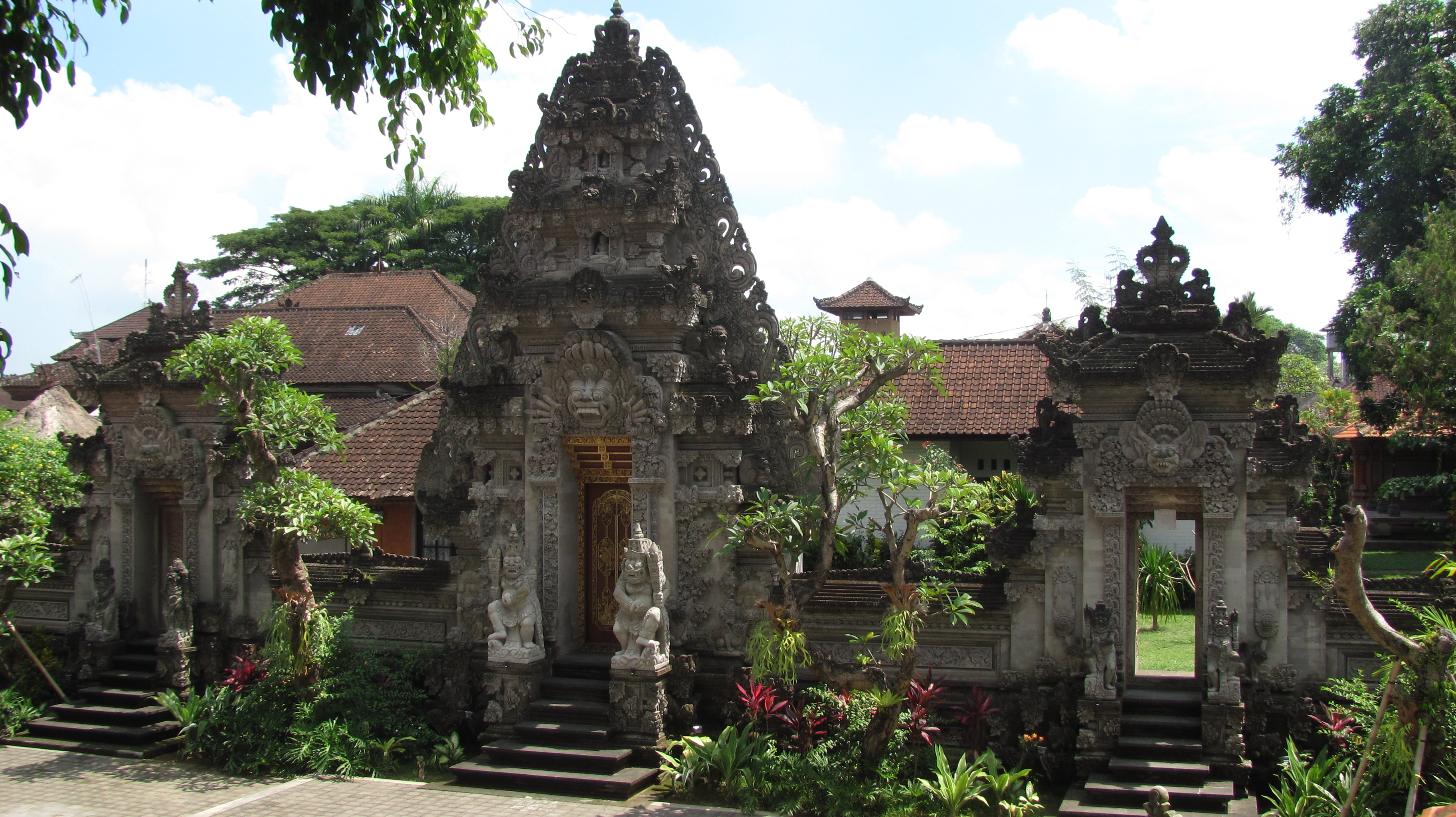 "Pura Majaran Agung" Temple in Ubud, Bali,Indonesia